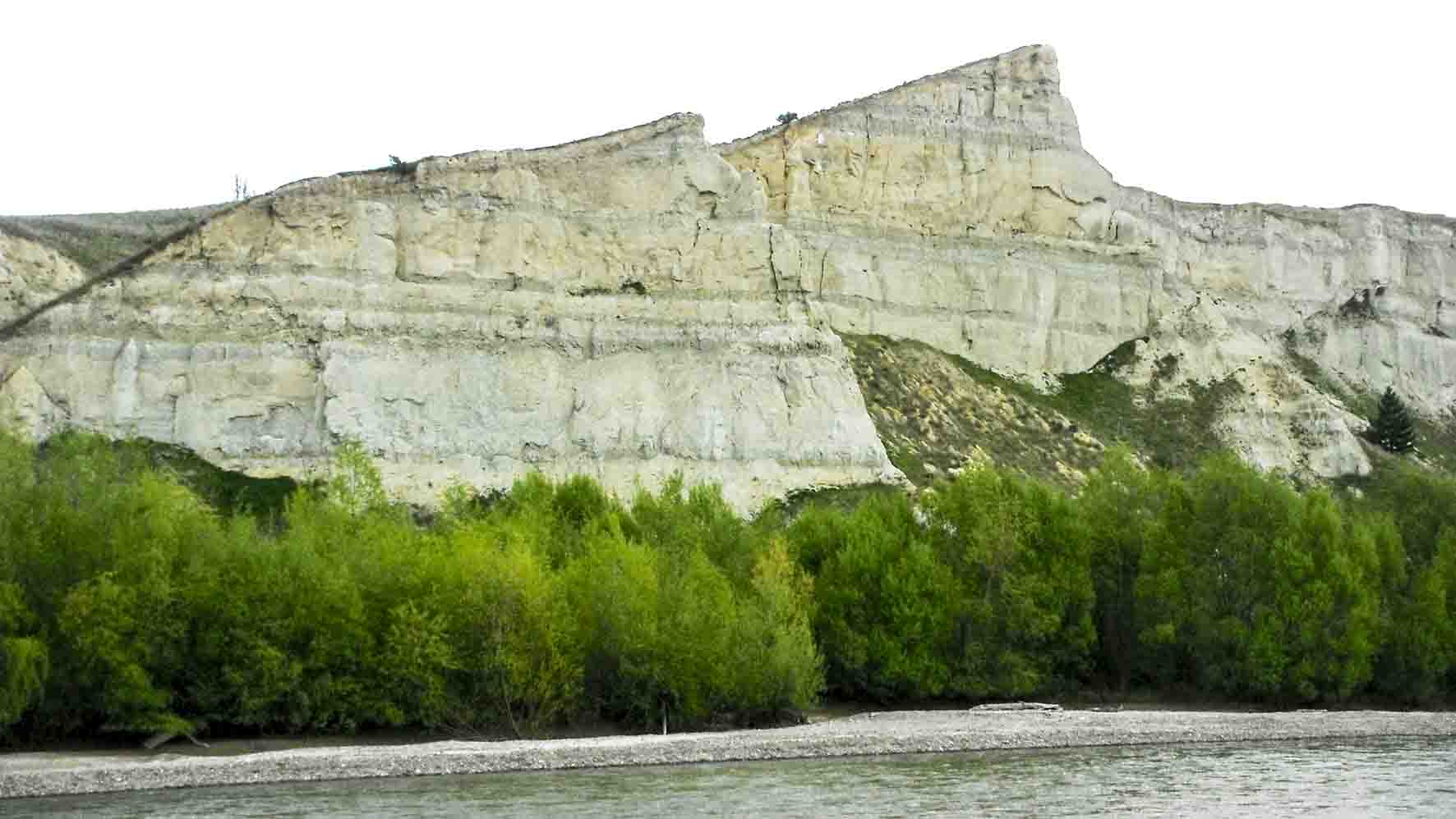 Bannockburn Formation strata at Galloway